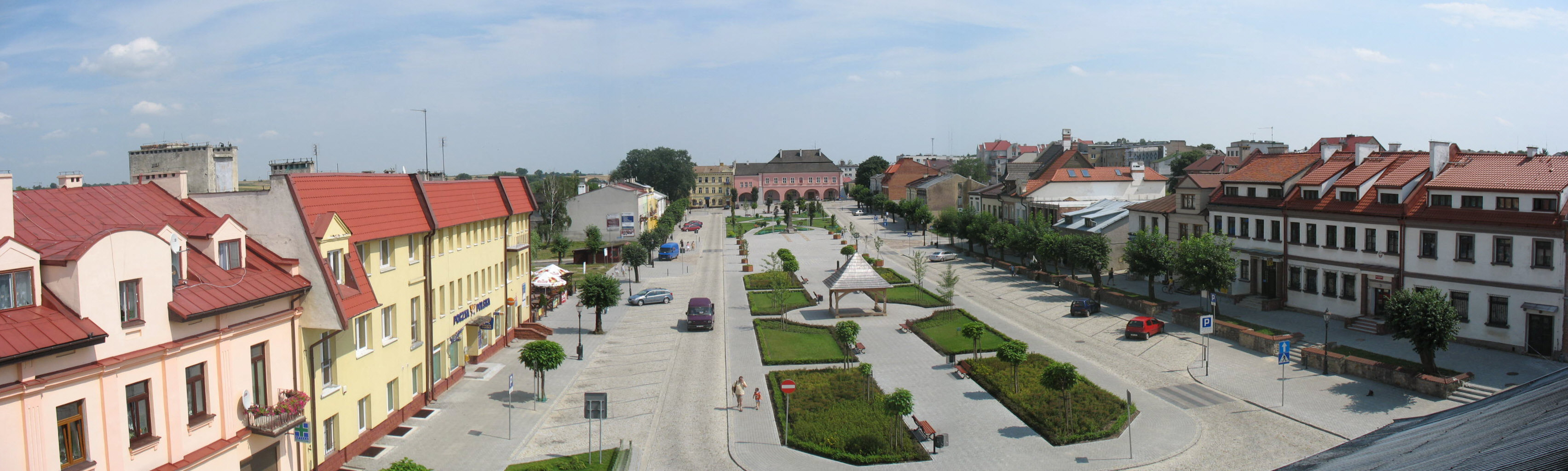 Market Square in Opatów.